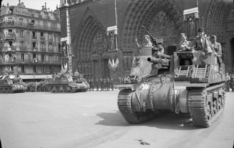 The Campaign in North-west Europe 1944-45 Priest 105mm self-propelled guns of the French 2nd Armoured Division in front of Notre Dame in Paris, 26 August 1944.